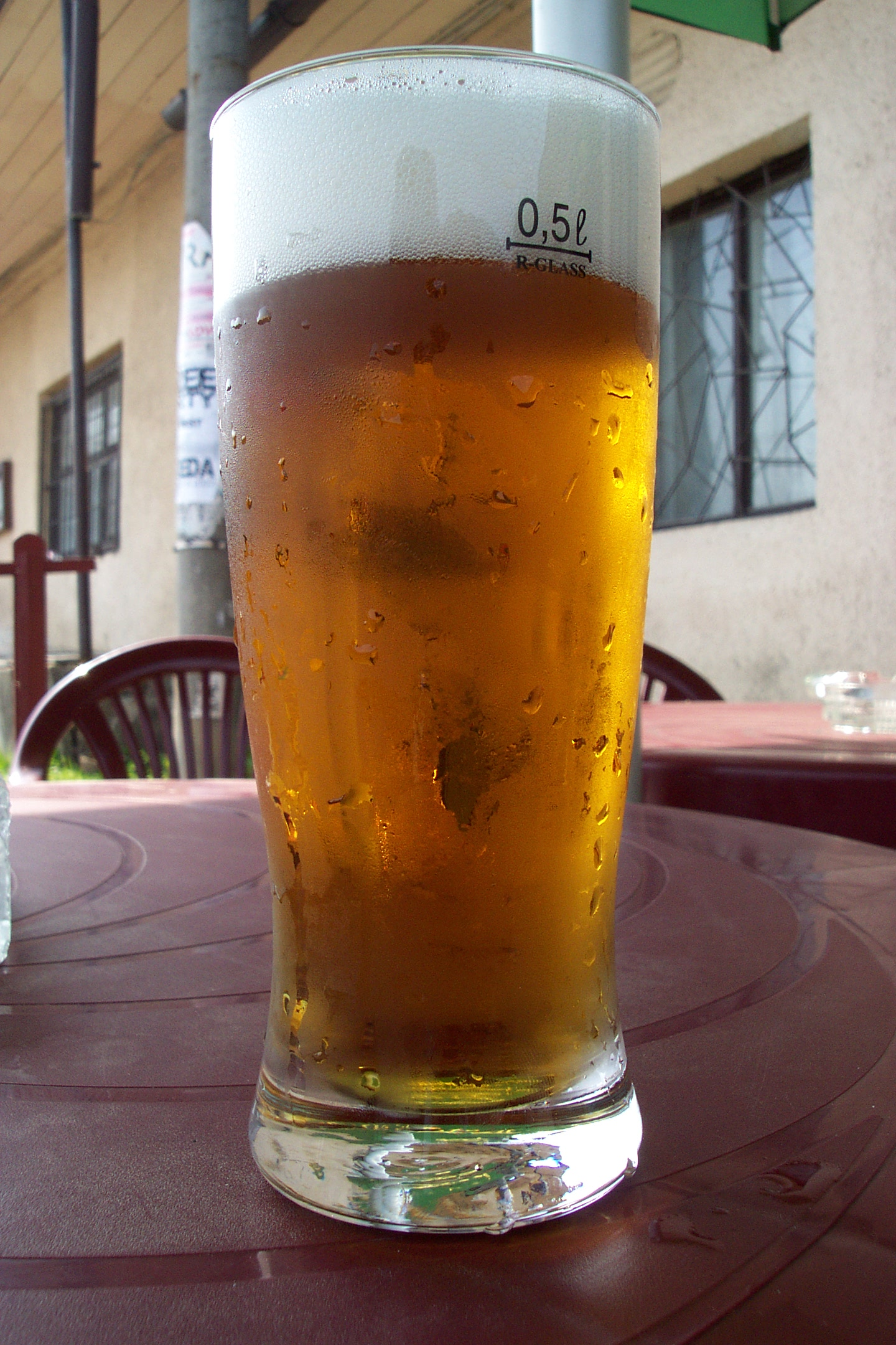 A glass of Kelt (Slovakian beer) in the village of Slanec in Košice District, Slovakia. Česky: Půllitr Kelta v obci Slanec, nedaleko Košic.